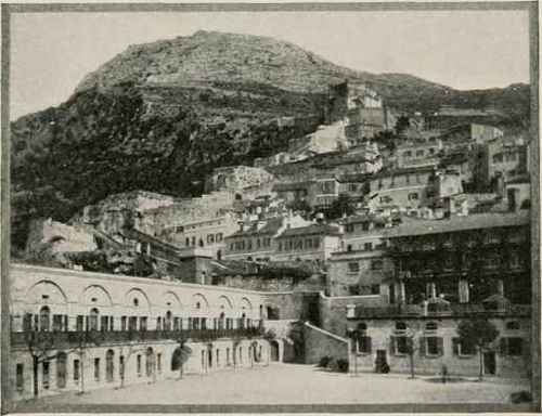 Under the Cliffs - Casement Square in Gibraltar in 1901 from "Gibraltar - John L. Stoddard's Lectures", by John L. Stoddard.